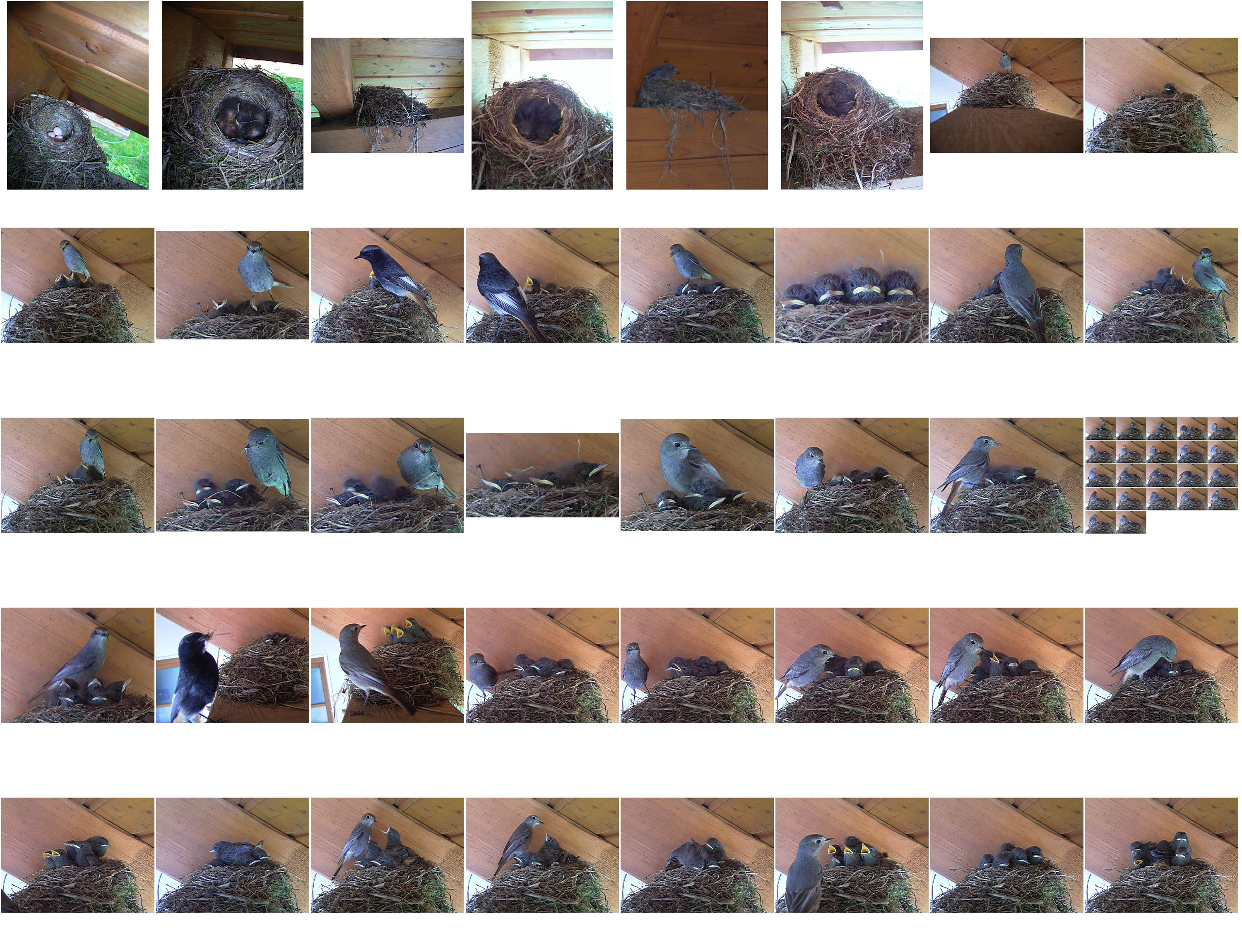 A Contactsheet of the best of. See also overall description below